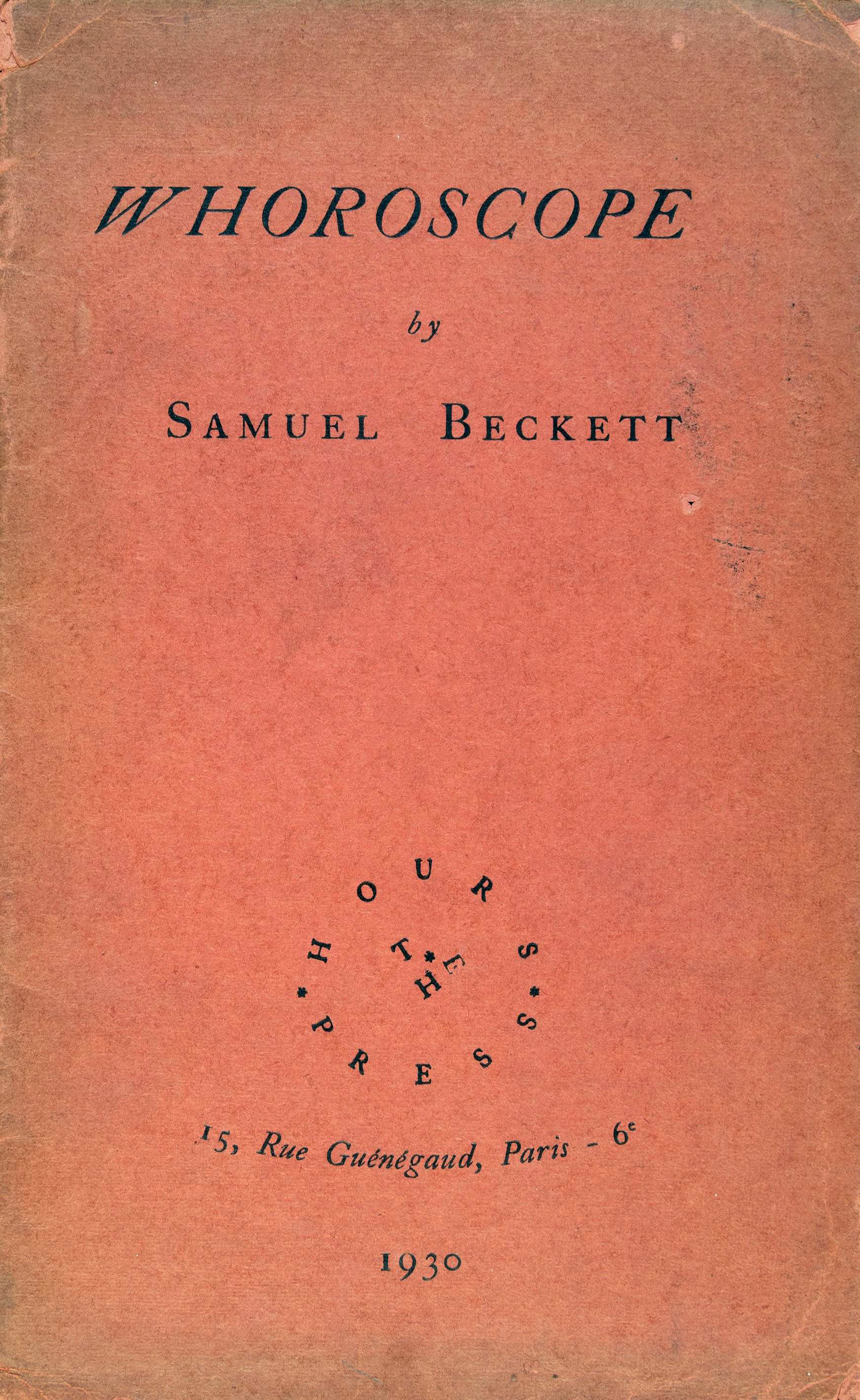 Book cover